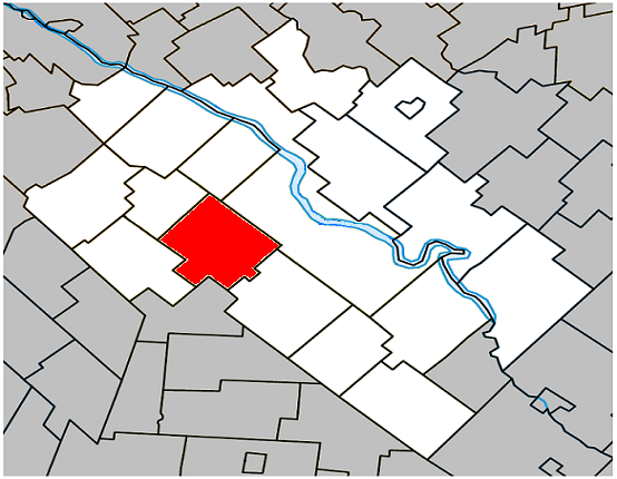 Location of Saint-Germain-de-Grantham, Quebec within Drummond Regional County Municipality.